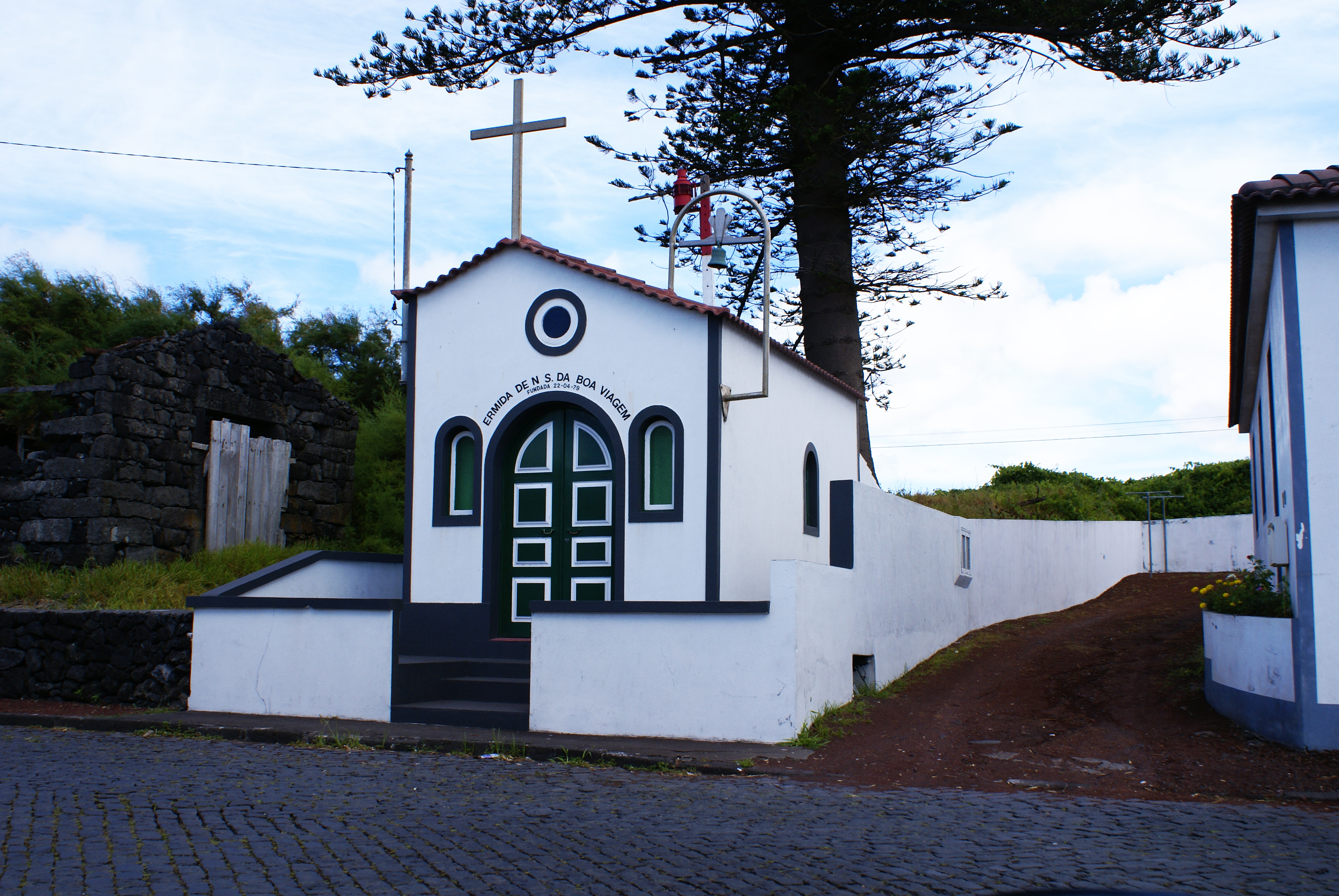 Ermida de Nossa Senhora da Boa Viagem, Criação Velha, concelho da Madalena, ilha do Pico, Açores, Portugal